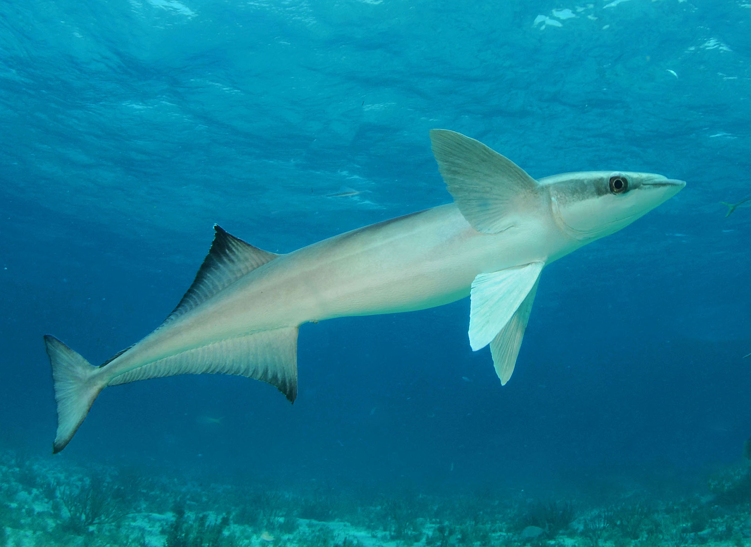 Remora from Bahama's